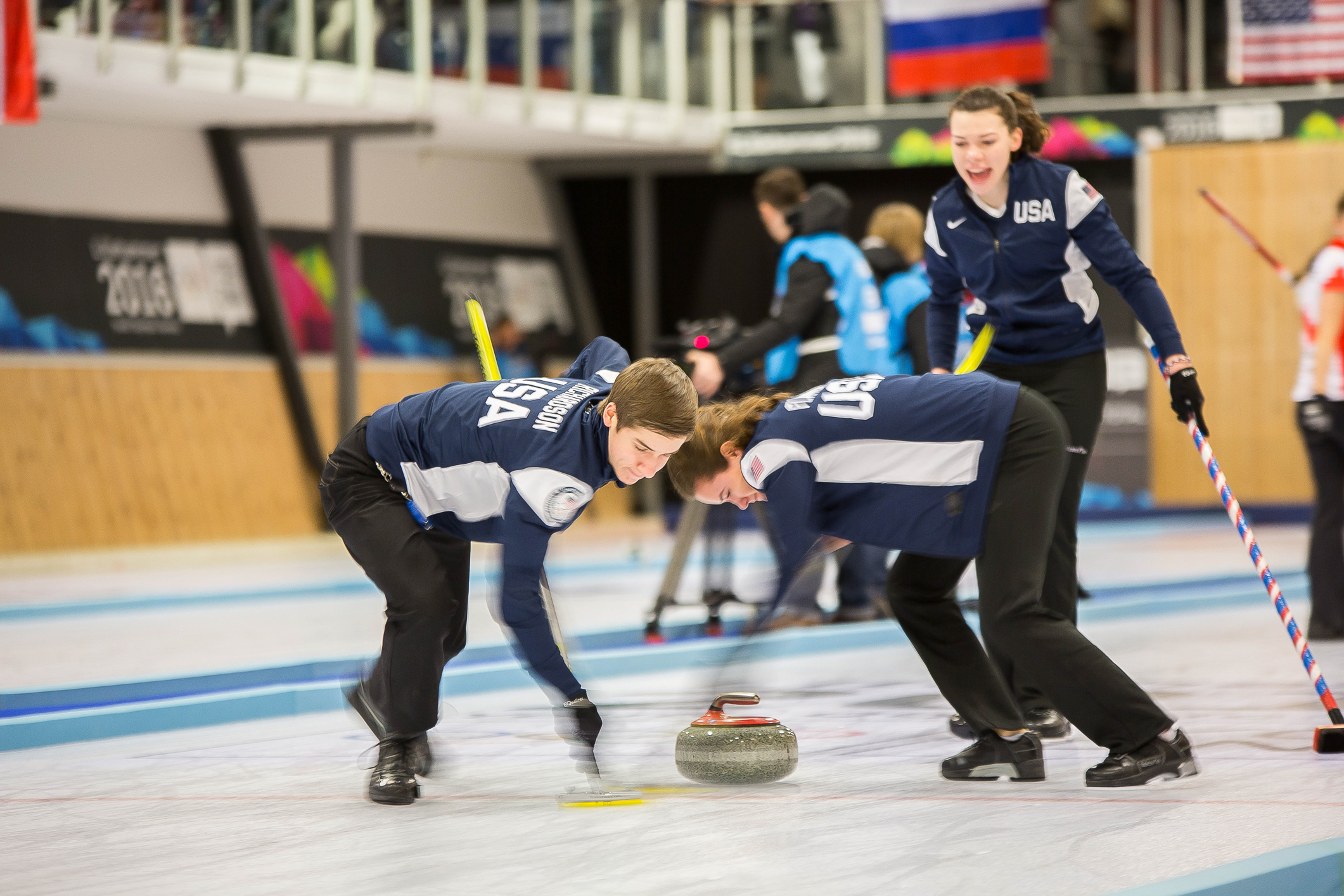 United States Of America, in the Mixed Team Final. From left to right ː Ben Richardson, Cait Flannery and Cora Farrell Gold: Canada Silver: United States Of America Bronze: Switzerland taken on: 2016.02.17 09:21 Photo: Vegar S Hansen / Lillehammer 2016